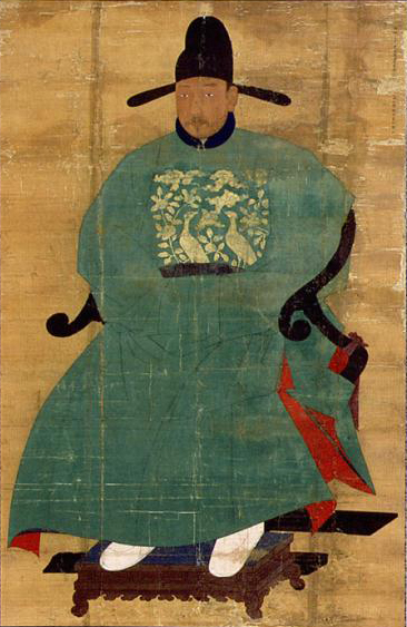 Portrait of Shin Sukju in the eary Joseon dynasty